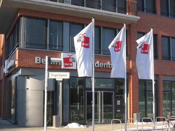 Engeldamm in Berlin-Mitte. ver.di (trade union) central office. This place marks the end of the former Luisenstädtischer Kanal at its flowing to river Spree